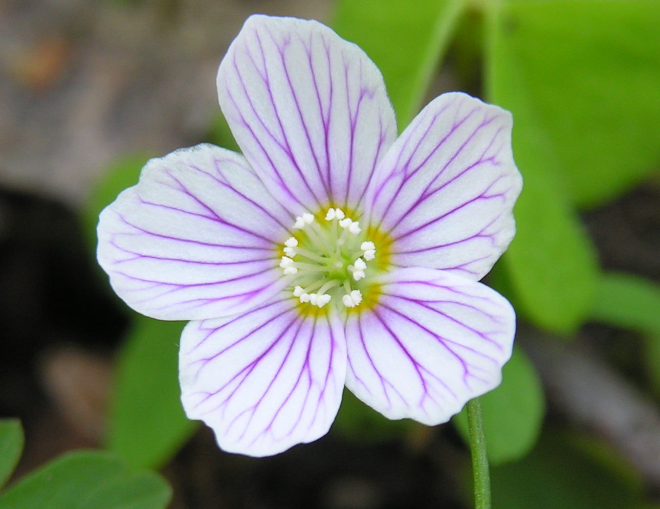 Oxalis acetosella flower